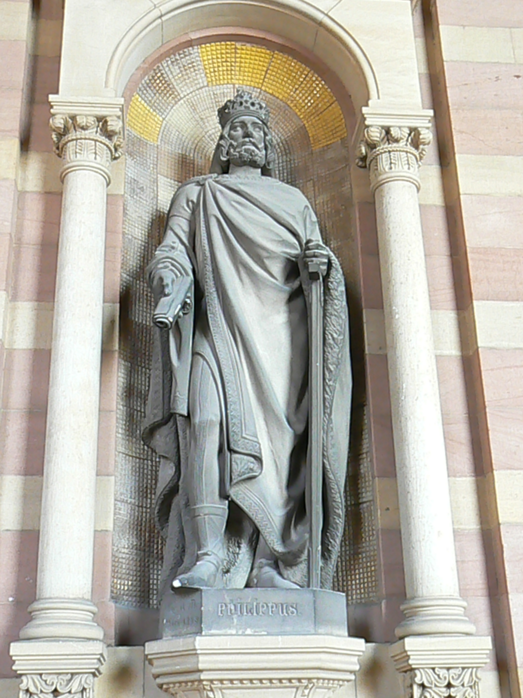 Philip of Swabia